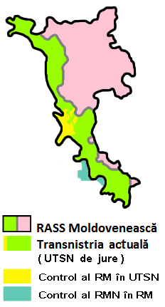 former Moldavian Autonomous Soviet Socialist Republic and modern Transnistria (now in Republic of Moldova)